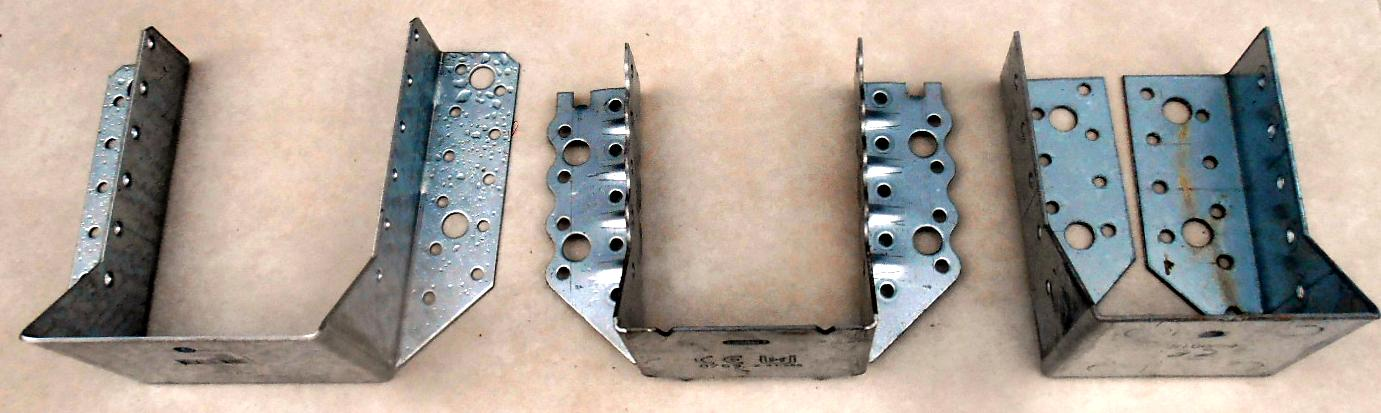 Three different joist hangers.